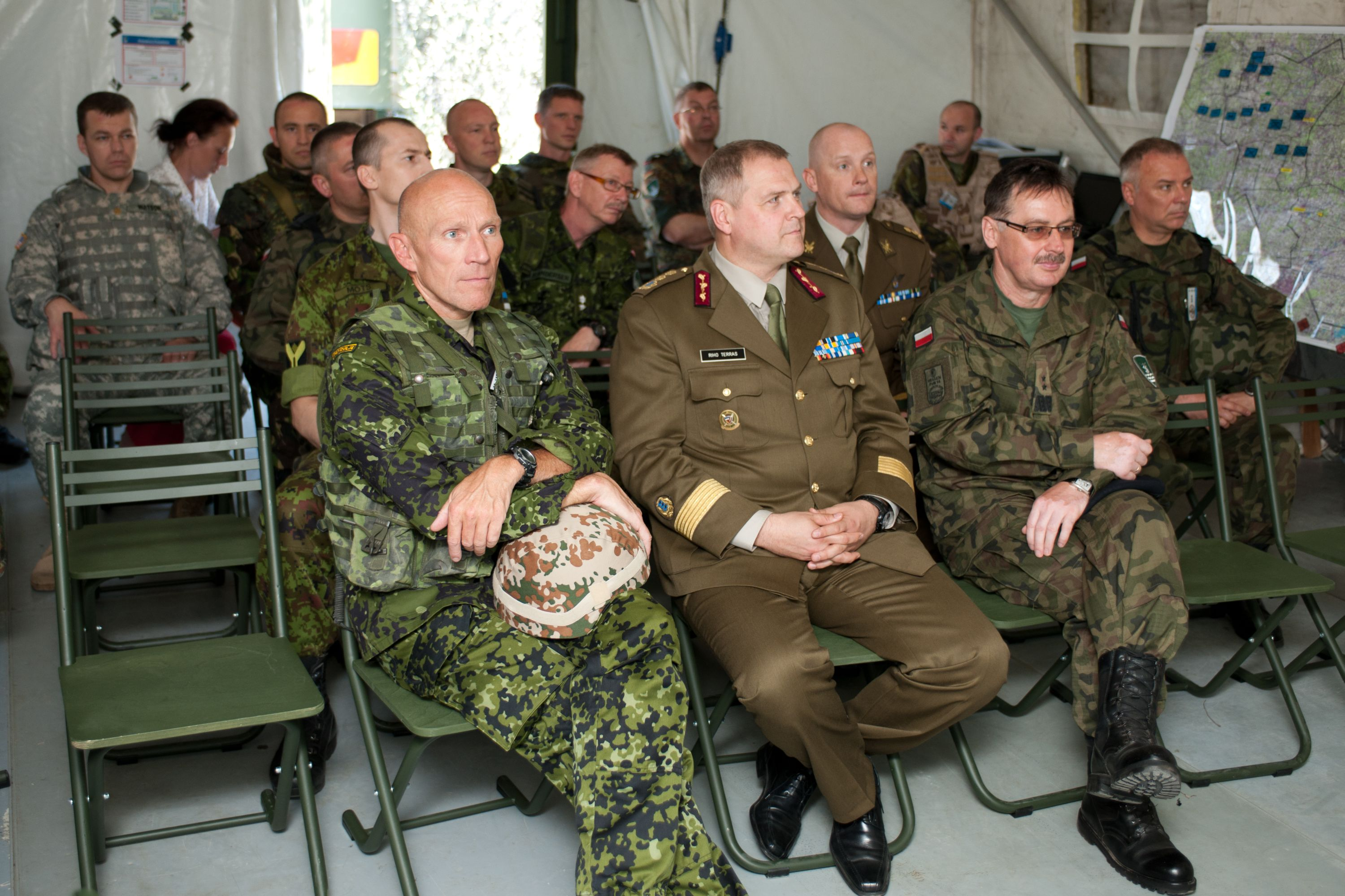 PABRADE, Lithuania -- Estonian Chief of Defence Maj. Gen. Riho Terras (center) accompanied by Commander of Multinational Corps Northeast Maj. Gen. Boguslaw Samol (right) and his Deputy Maj. Gen. Agner Rokos receive an introduction briefing here June 6. Saber Strike 2013 is a U.S. Army Europe-led, multinational, tactical field training and command post exercise occurring in Lithuania, Latvia and Estonia June 3-14 that involves more than 2,000 personnel from 14 different countries. The exercise trains participants on command and control as well as interoperability with regional partners and is designed to improve joint, multinational capability in a variety of missions and to prepare participants to support multinational contingency operations worldwide.(NATO photo by Staff Sgt. Halec Pola)